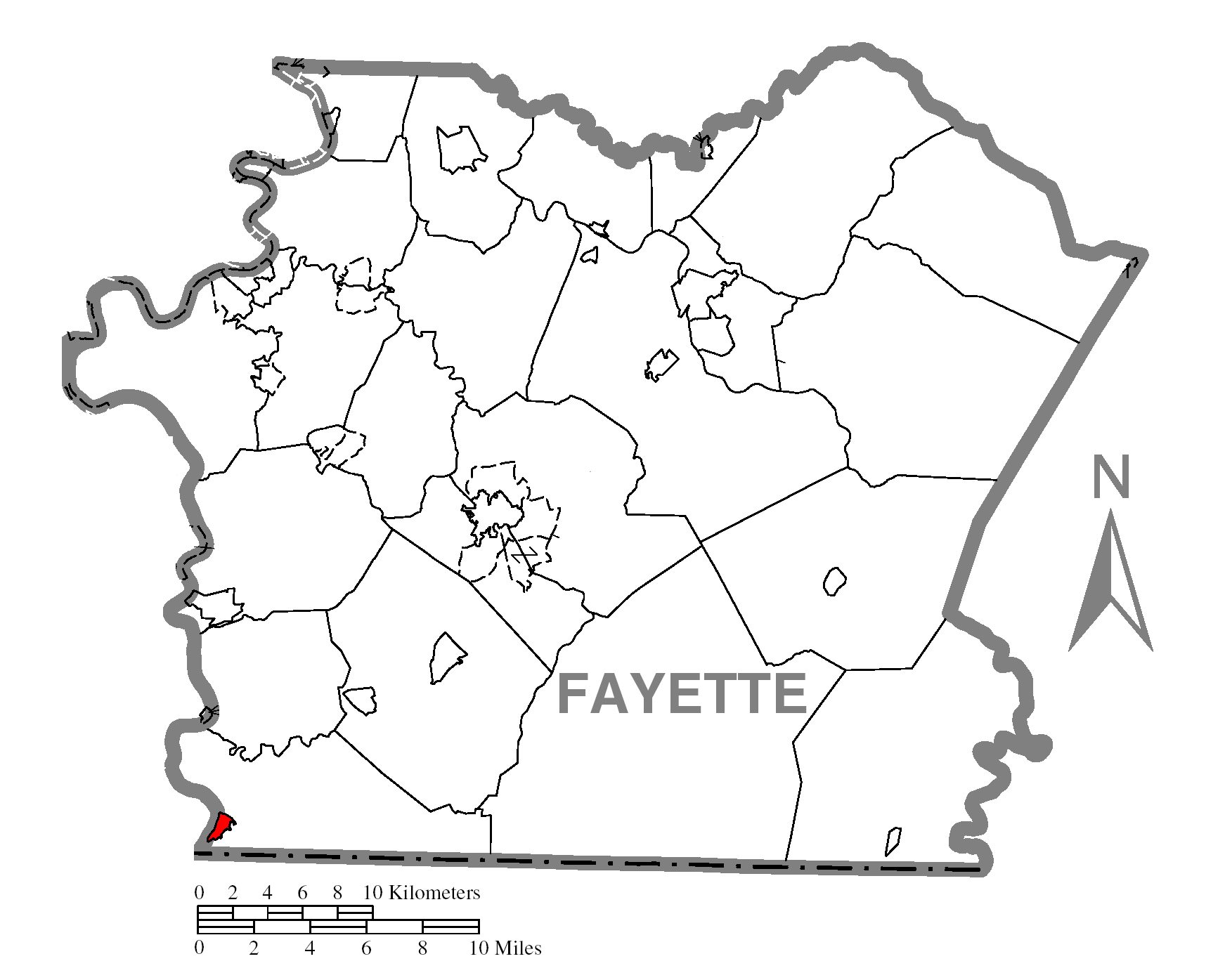 Map of Fayette County higlighting Point Marion.